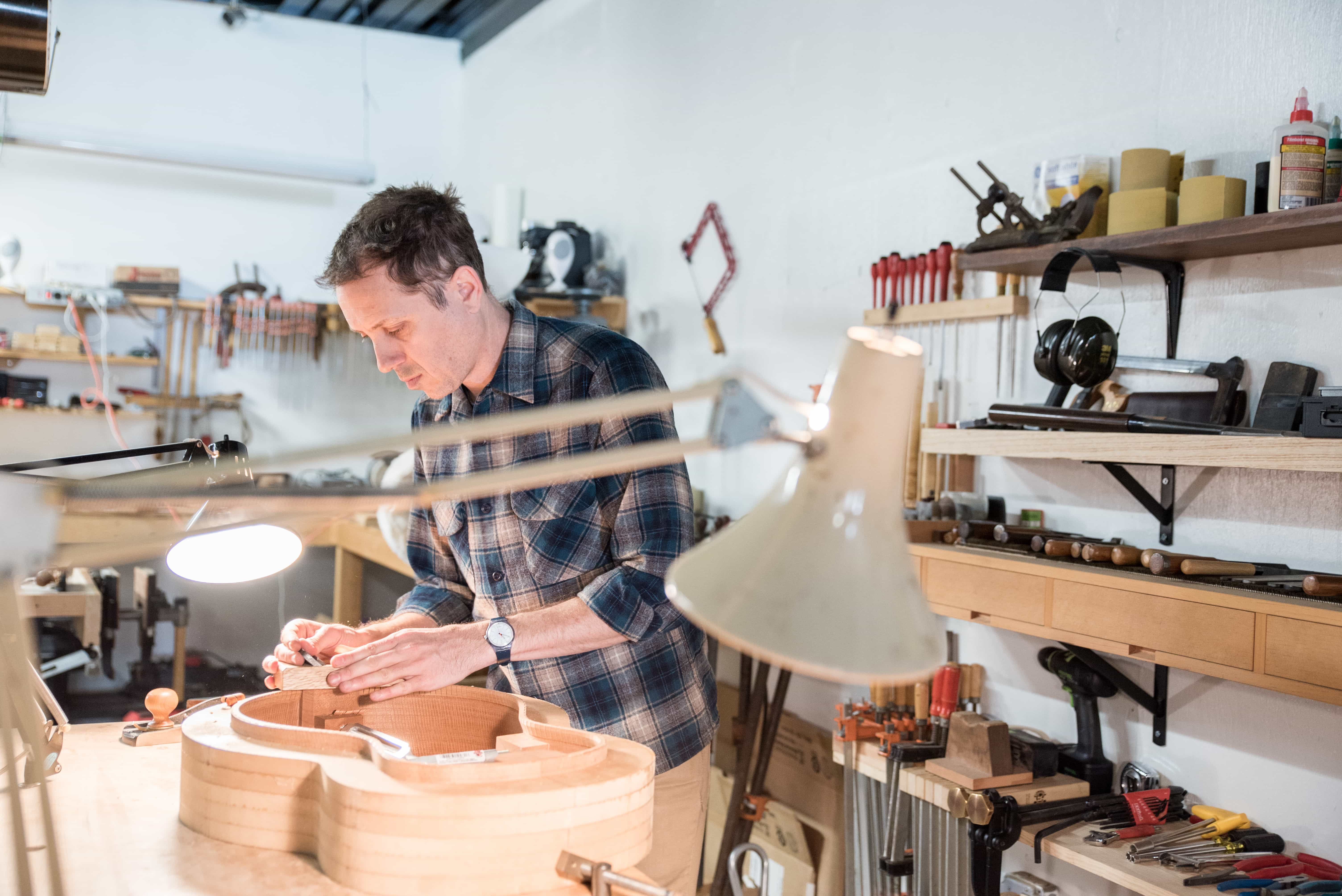 Guitar luthier building acoustic guitar in workshop